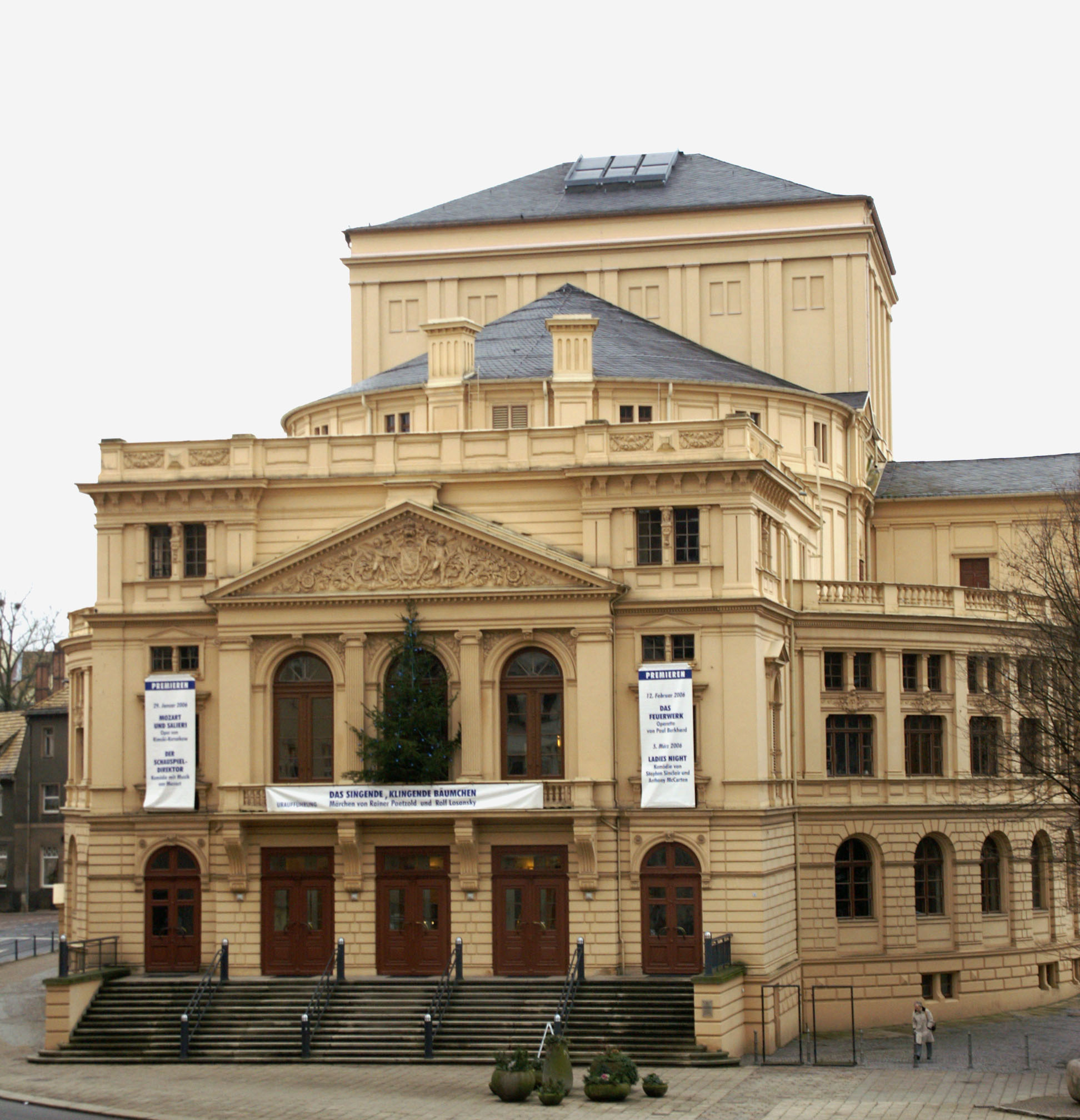 Theatre in Altenburg, Germany.